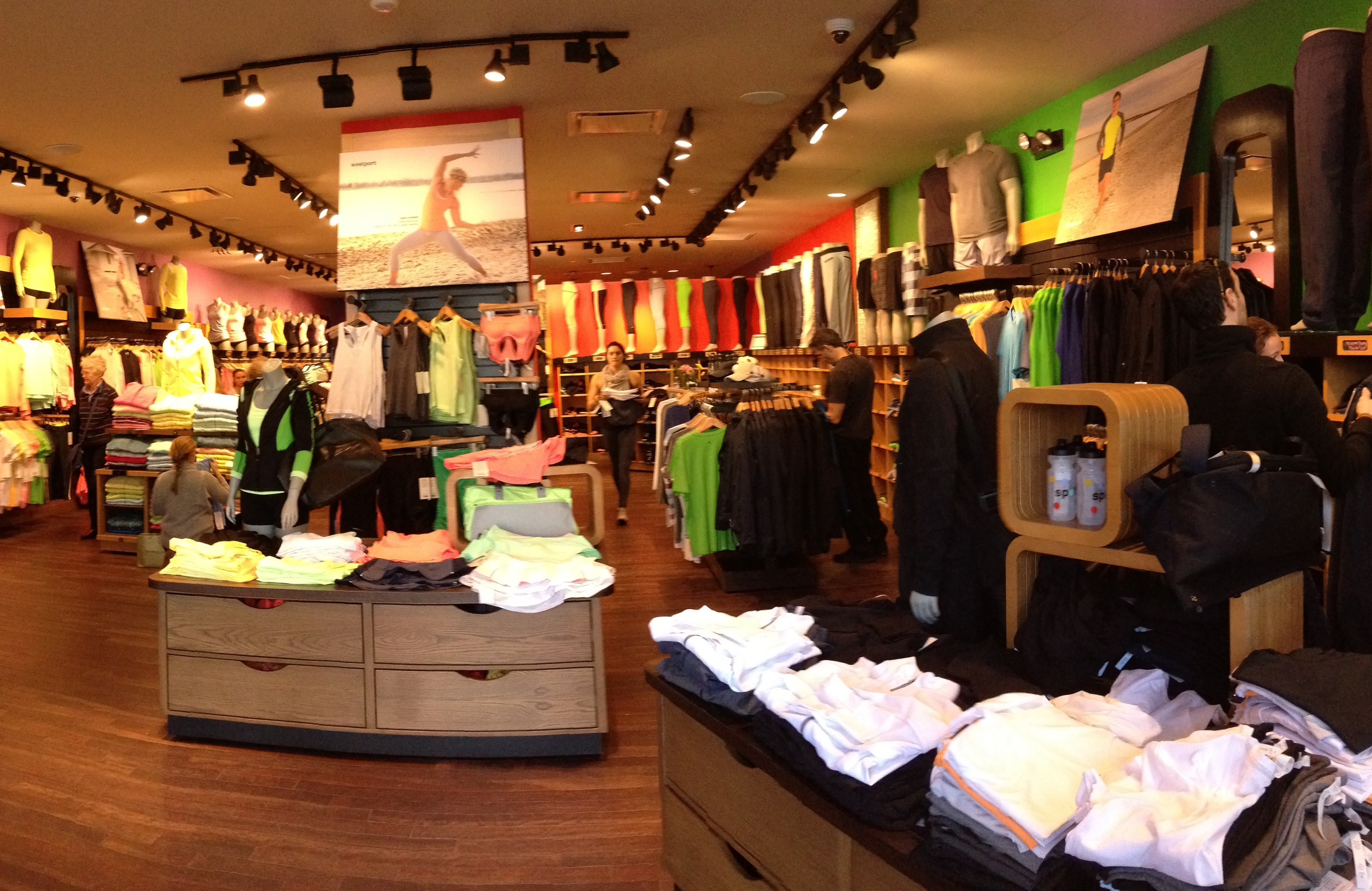 Lululemon Athletica, Westport, CT, 06880, USA - Mar 2013